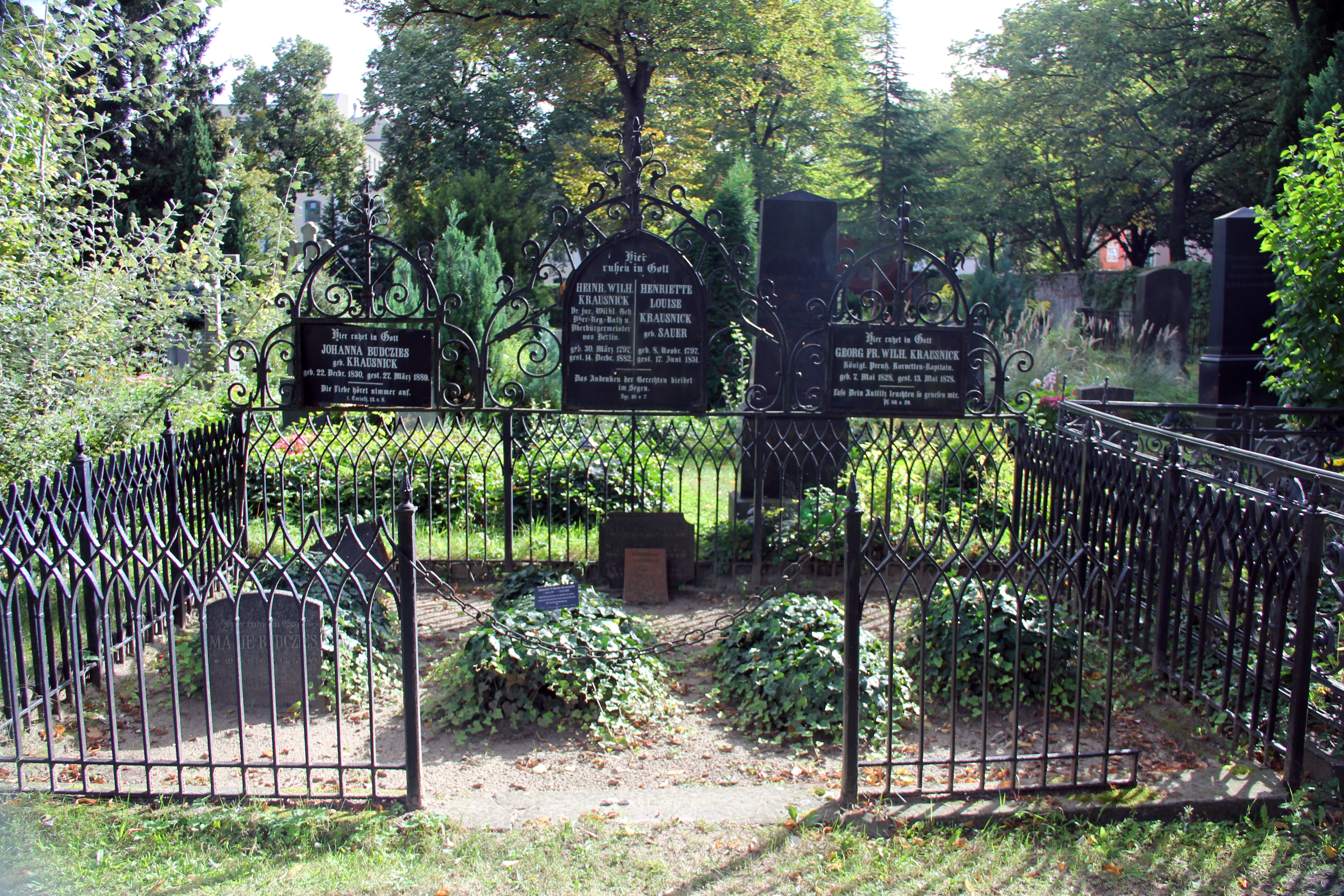 Grave of honor, Heinrich Wilhelm Krausnick, Mehringdamm 21, Berlin-Kreuzberg, Germany